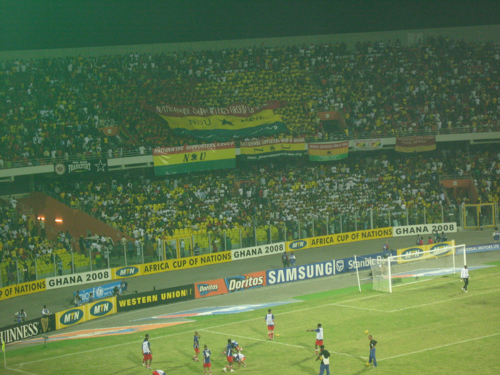 Africa Cup of Nations 2008, Ghana: Ghana vs Namibia